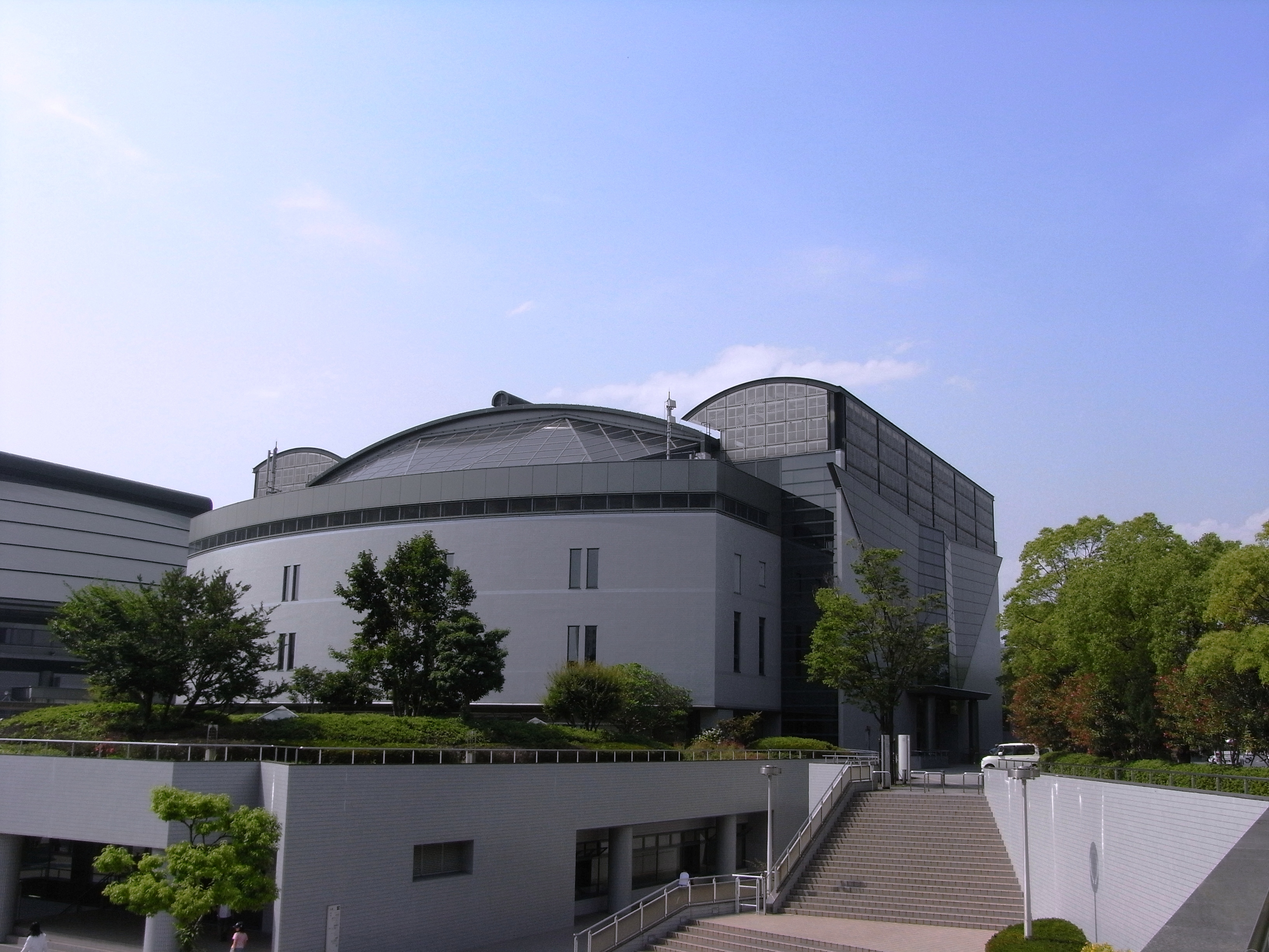 Hiroshima Prefectural Sports Center(広島県立総合体育館、Hiroshima Green Arena